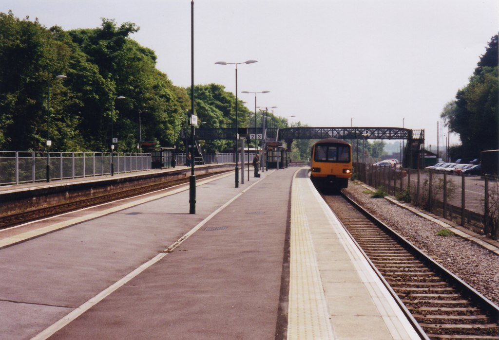 Radyr railway station, Cardiff, 2000. Opened in 1863 by the Taff Vale Railway on its line from Cardiff to Merthyr Tydfil, this station replaced an earlier one slightly further to the north west. View south towards Llandaf and Cardiff.